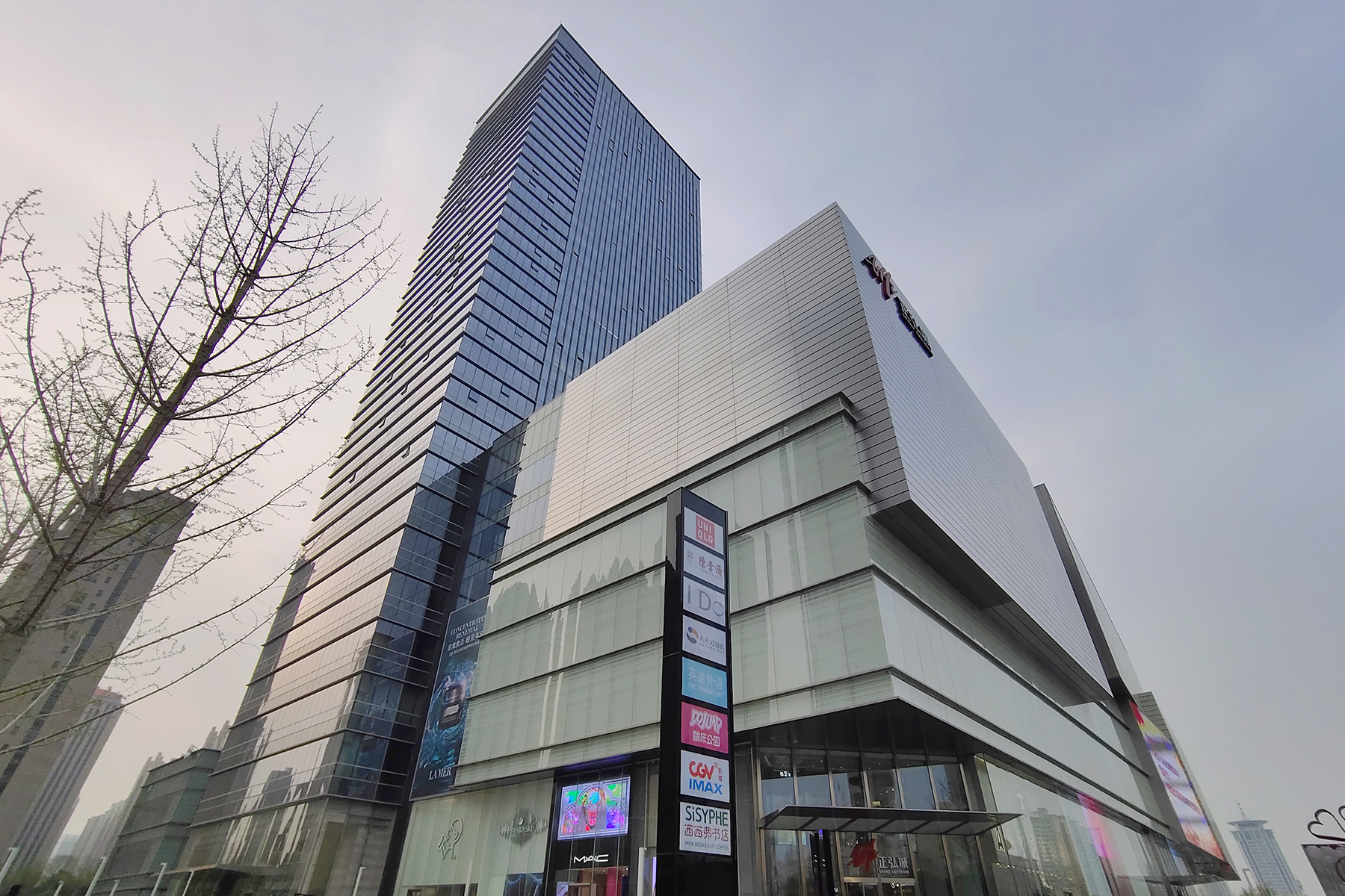 Grand Emporium, Zhengzhou